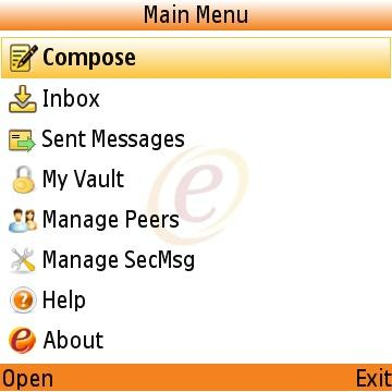 SecMsg Main Screen